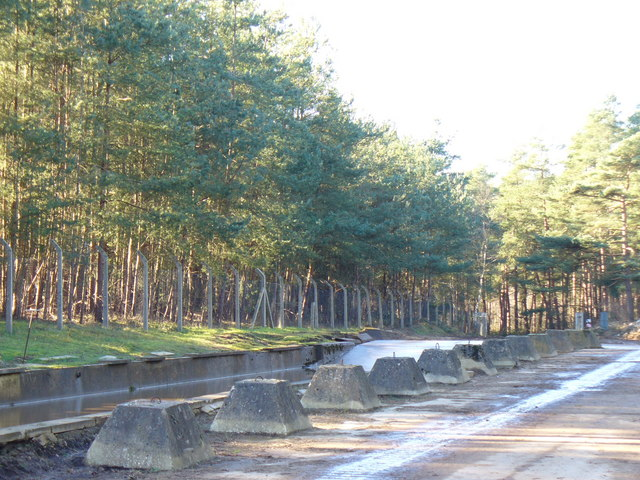 Tank Pit and Track, Hogmoor Road Taken from Hogmoor Road, this is where a tank road crosses the public road. Note the "dragons teeth" and the long pit beyond them. The heathland lends itself to military training based on Bordon Camp.